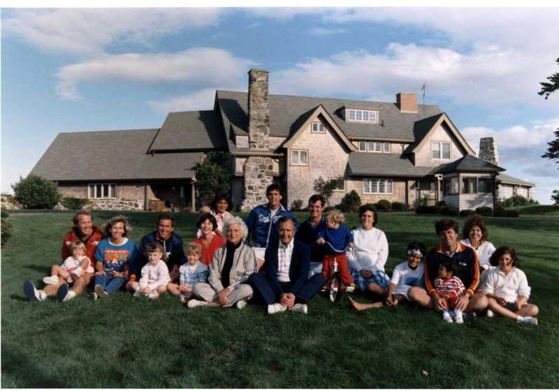 G13824-11 Family Portrait, Kennebunkport, Maine, 24 Aug 86. Back row: Margaret Bush holding daughter Marshall, Marvin Bush, and Bill LeBlond. Front row: Neil Bush holding daughter Lauren, Sharon Bush, George W. Bush holding daughter Barbara, Laura Bush holding daughter Jenna, Barbara Bush, George H. Bush, Sam LeBlond, Doro LeBlond, George P. Bush, Jeb Bush holding son Jebby, Columba Bush, and Noelle Bush. Photo Credit: George Bush Presidential Library